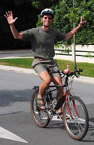 Cycling with no hands on the handles